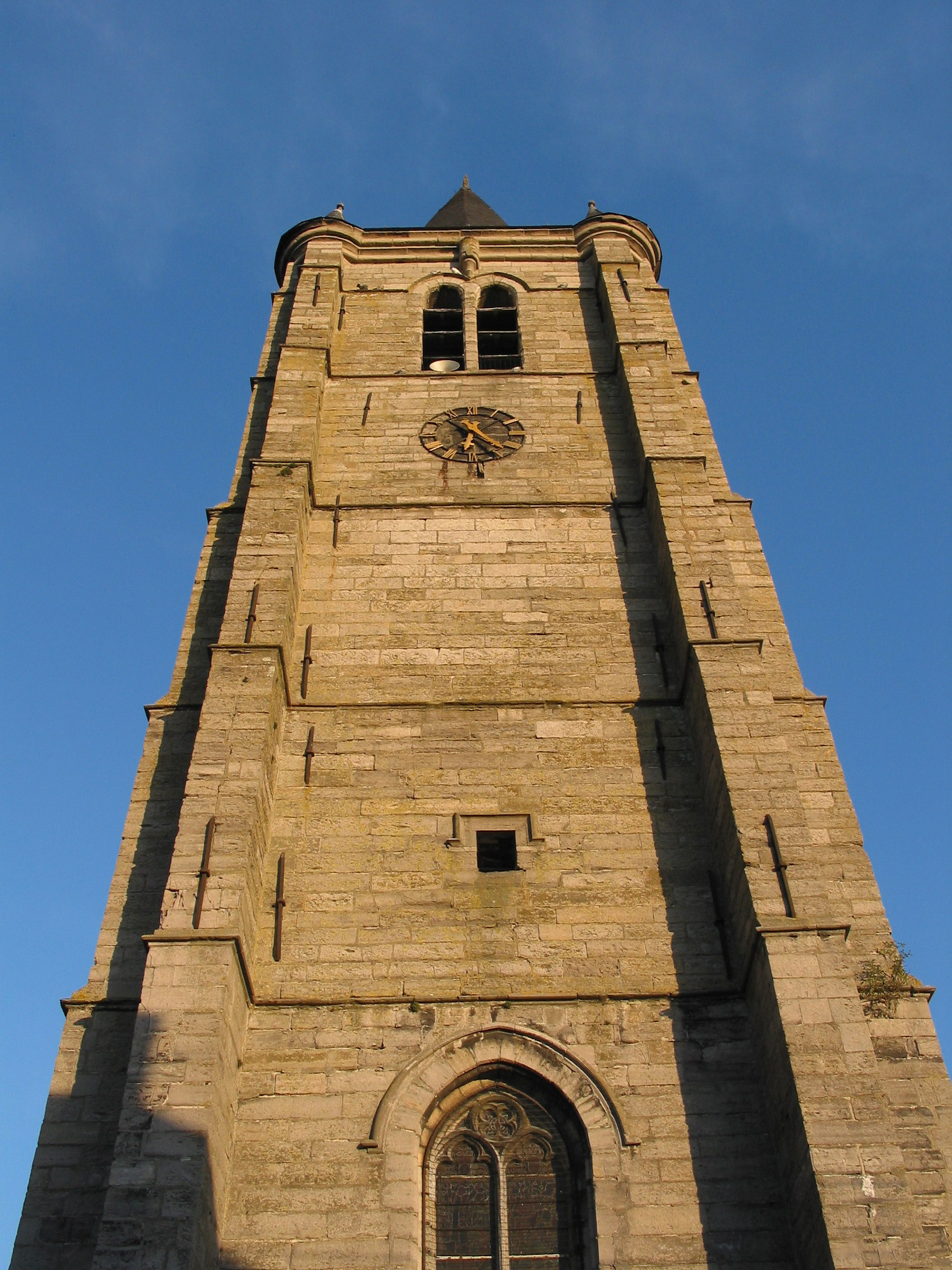 Celles (Hainaut) (Belgium), the St. Christopher's church XVth century).